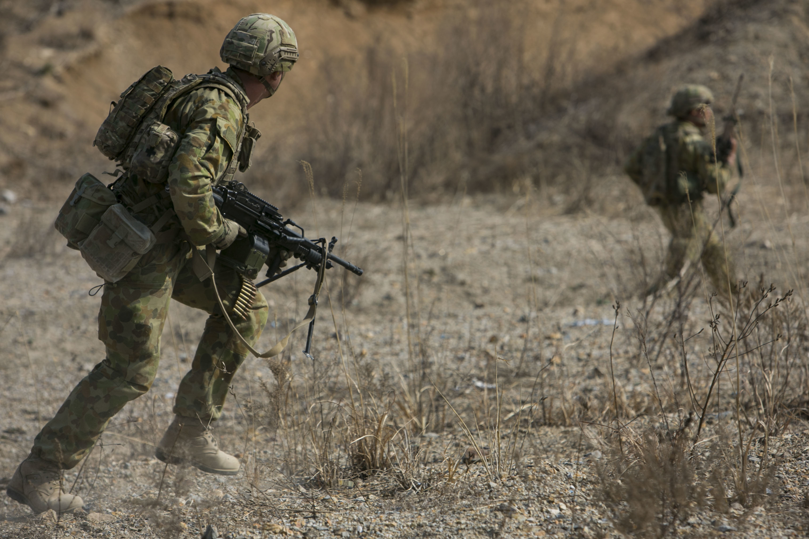 Australian soldiers with Bravo Company, 6th Royal Australian Regiment conduct a coalition platoon attack drill during exercise Ssang Yong 16 in South Korea, March 17, 2016. Ssang Yong is a biennial combined amphibious exercise conducted by forward deployed U.S. forces with the Republic of Korea Navy and Marine Corps, Australian Army and Royal New Zealand Army Forces in order to strengthen our interoperability and working relationships across a wide range of military operations - from disaster relief to complex expeditionary operations. The American-Australian alliance has grown ever stronger based upon the shared interests and common values of both nations. (U.S. Marine Corps photos by MCIPAC Combat Camera Lance Cpl. Sean M. Evans/ Released)